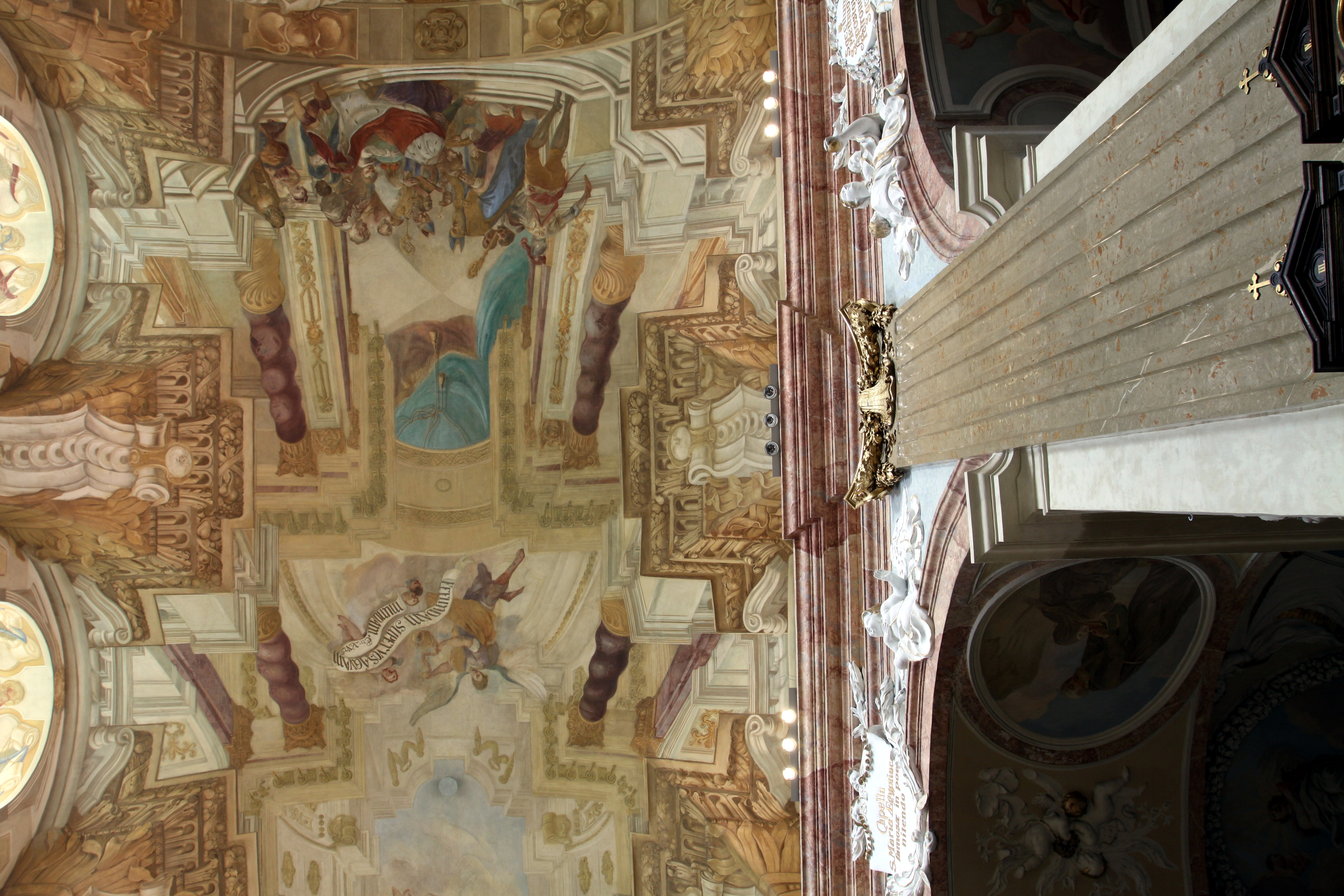 Interior of the Basilica of Assumption and Saints Cyril and Methodius in Velehrad near Uherské Hradiště, Czech Republic